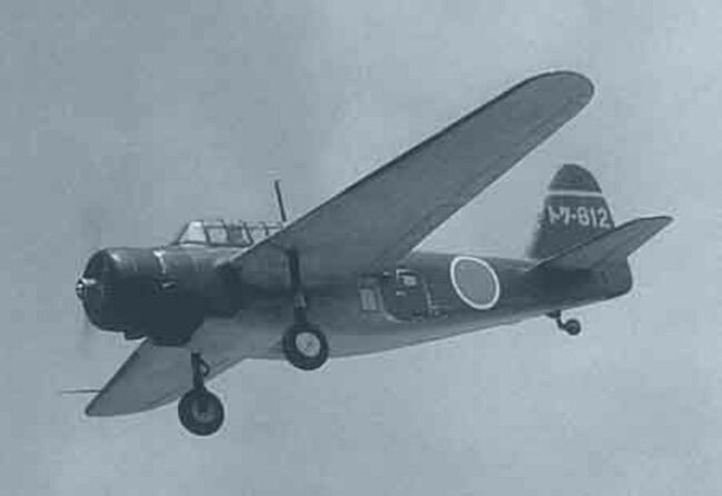 A Kyushu K11W Shiragiku of Tokushima Gunkoukuutai Kai (Naval Air Base of Tokushima) in flight.